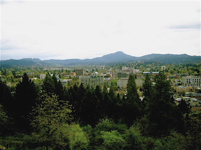 View of Eugene (Oregon)